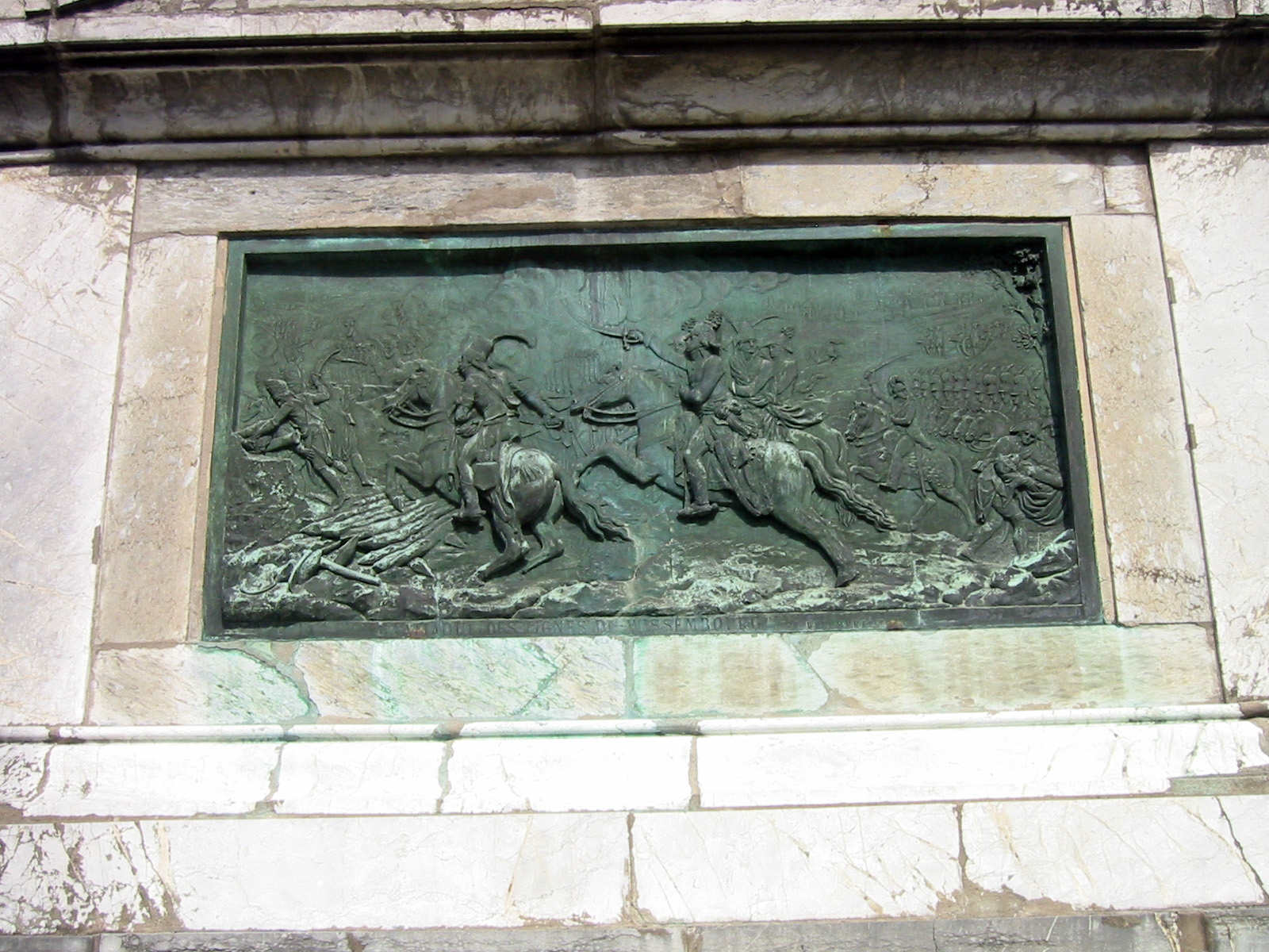 Bronze relief monument westside. Storming the Weissenburg/Wissembourg lines december 1793.